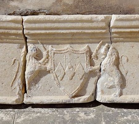 coat of arms